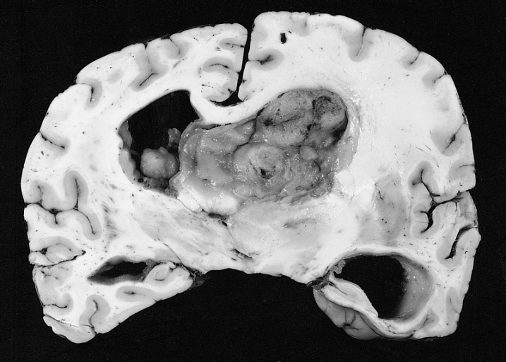 CNS: SUBEPENDYMAL GIANT CELL ASTROCYTOMA (TUBEROUS SCLEROSIS) This large fleshy mass straddles the midline and produces marked dilatation of the lateral ventricles.